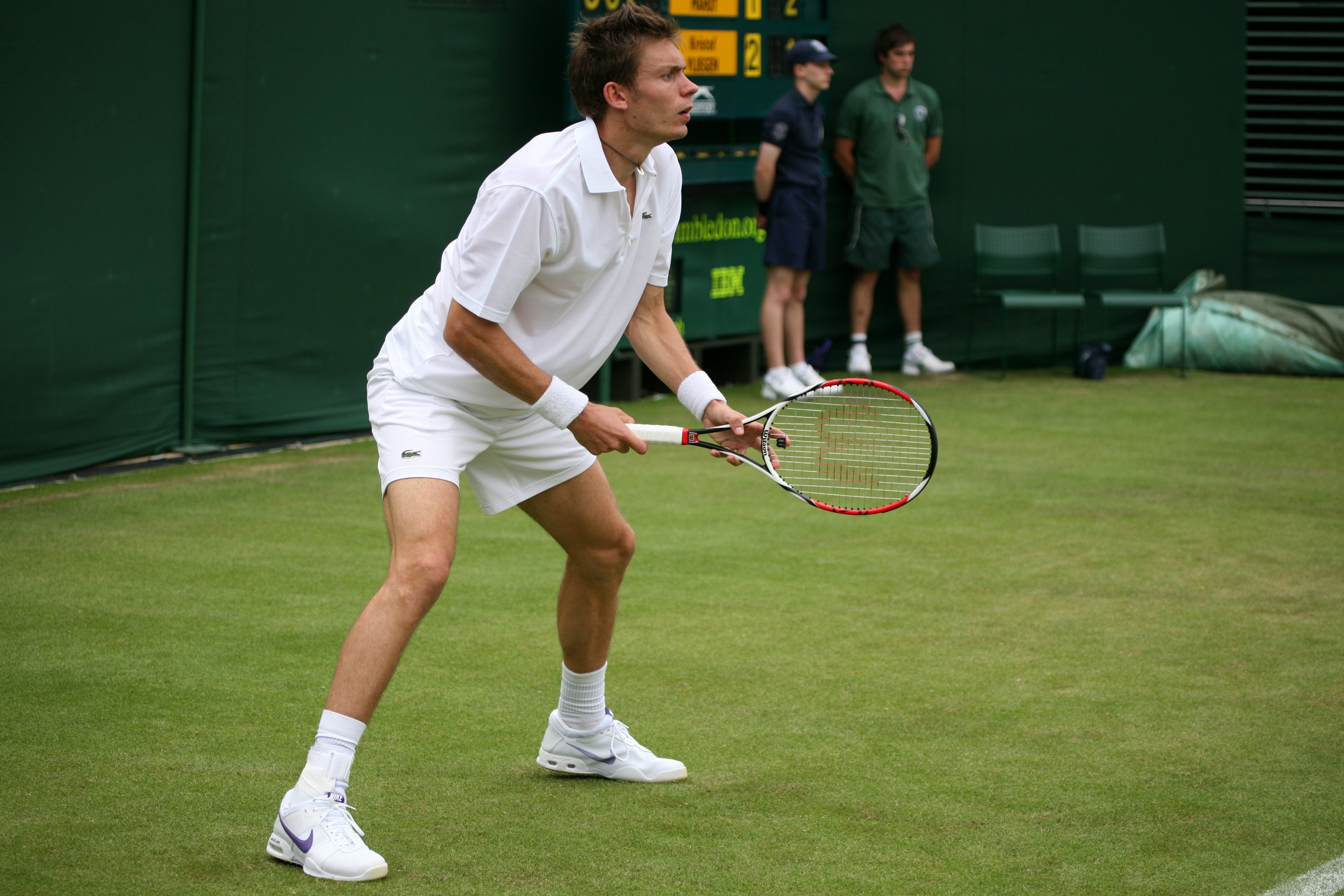 Nicolas Mahut against Kristof Vliegen in the 2009 Wimbledon Championships first round